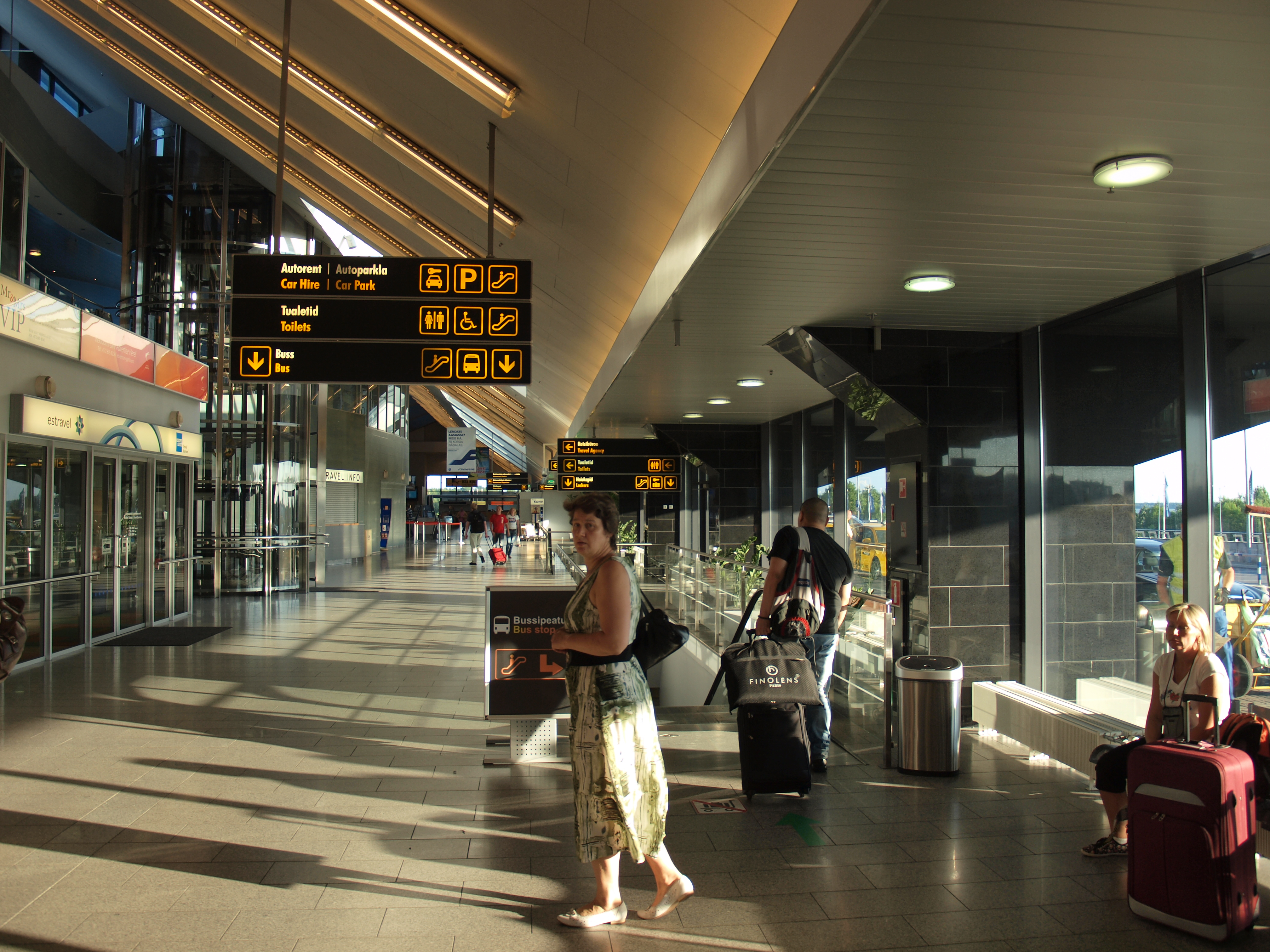 An inside view of Tallinn Ülemiste Airport, in Tallinn, Estonia.